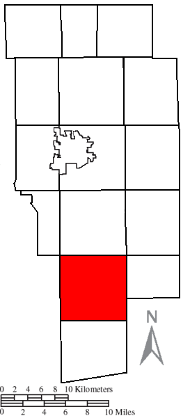 Originally created by the US Census. Modified by myself to highlight the township.